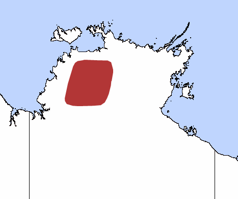 The Fawn Antechinus's Distribution.